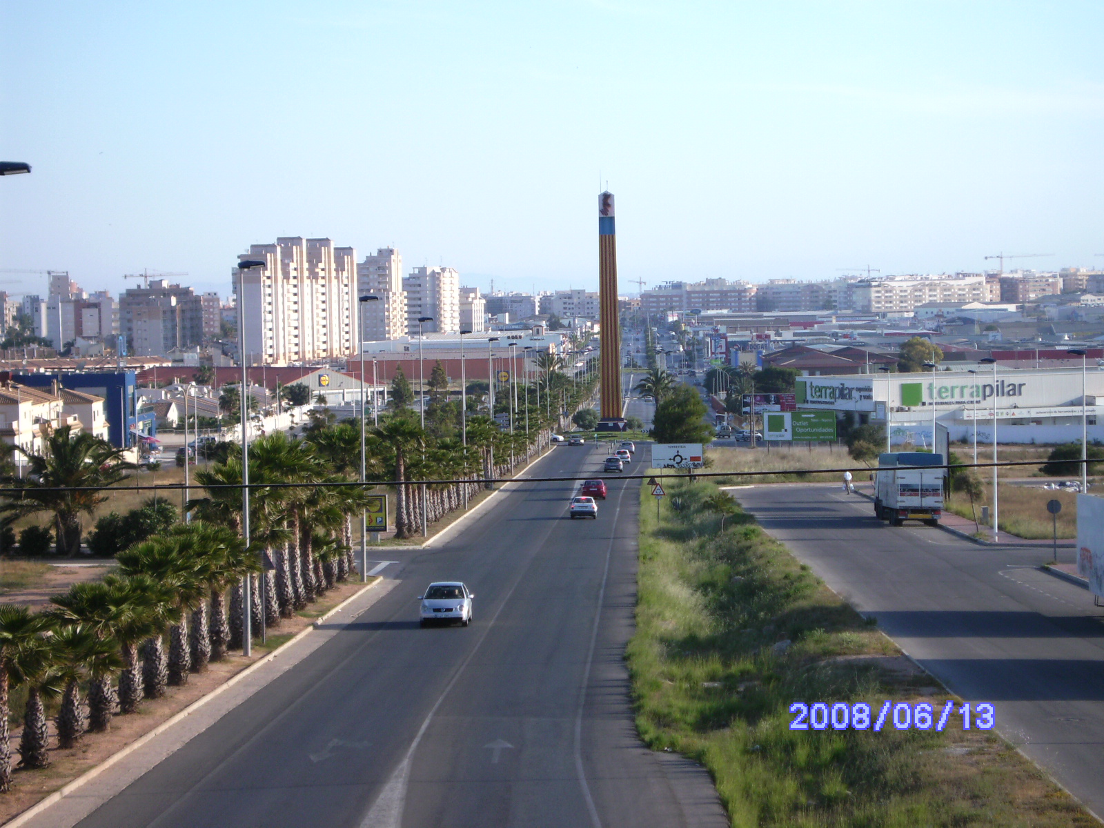 Torrevieja entrance to the Avenue of Corts Valencianes with a monolith which has drawn the flag and coat of Valencian Community.